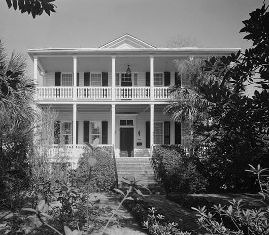 McKee-Smalls House, 511 Prince Street, Beaufort, Beaufort County, SC (cropped)